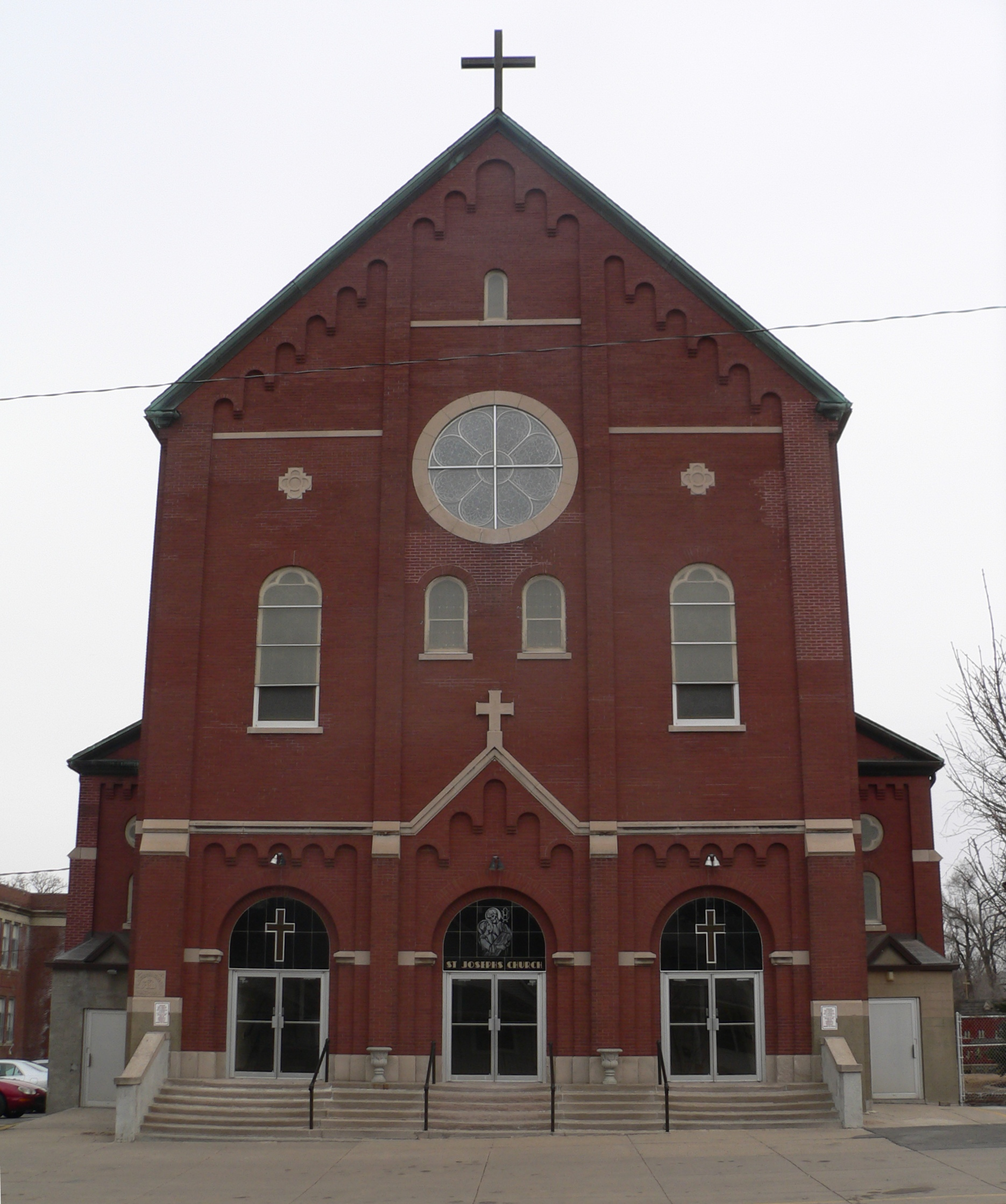 St. Joseph's Church, located at northeast corner of 17th and Center Streets in Omaha, Nebraska; seen from the west, across 17th.